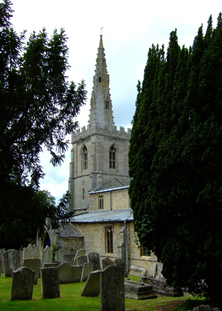 West tower of St Mary The Virgin's parish church, South Luffenham, Rutland, seen from the east